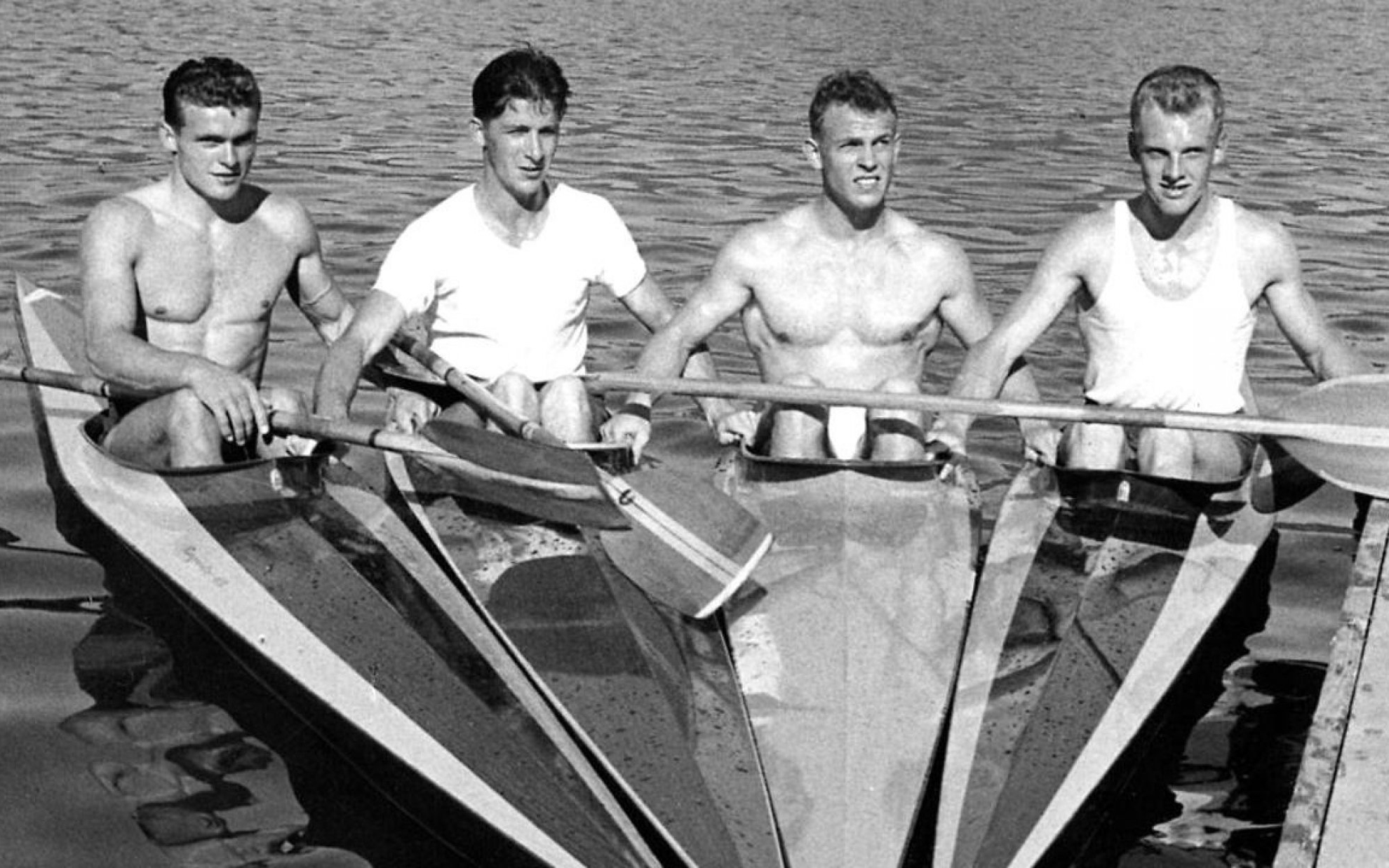 Danish men's K-1 4 × 500 metres team at the 1960 Olympics